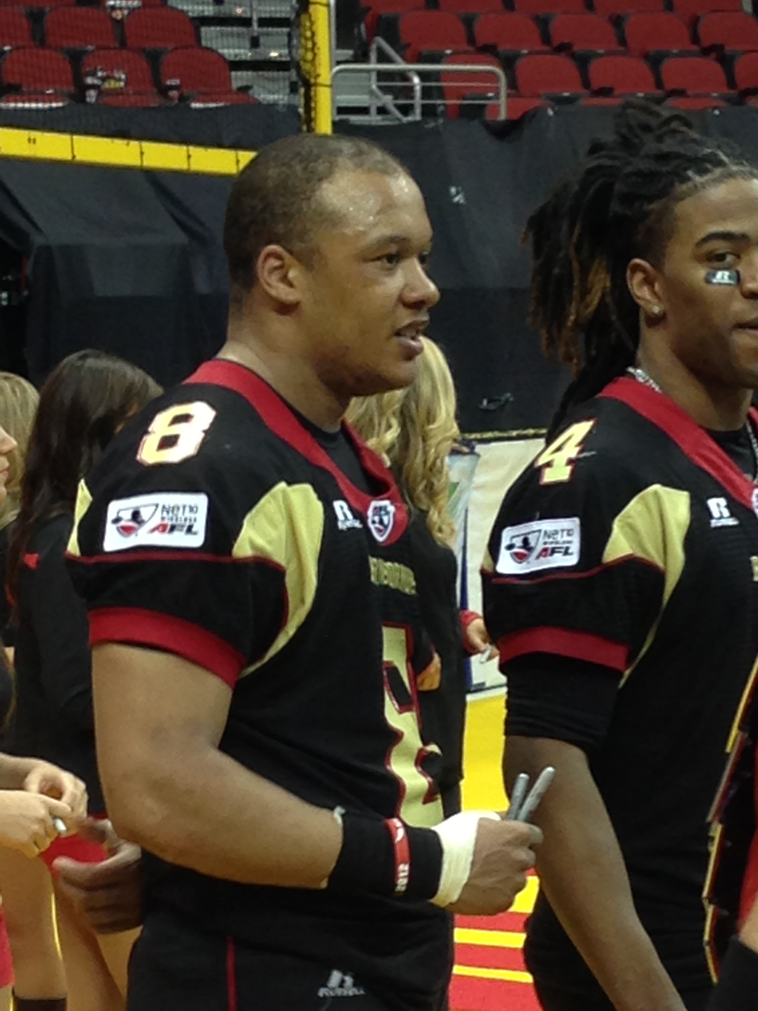 De'Mon Glanton after 6.1.13 game